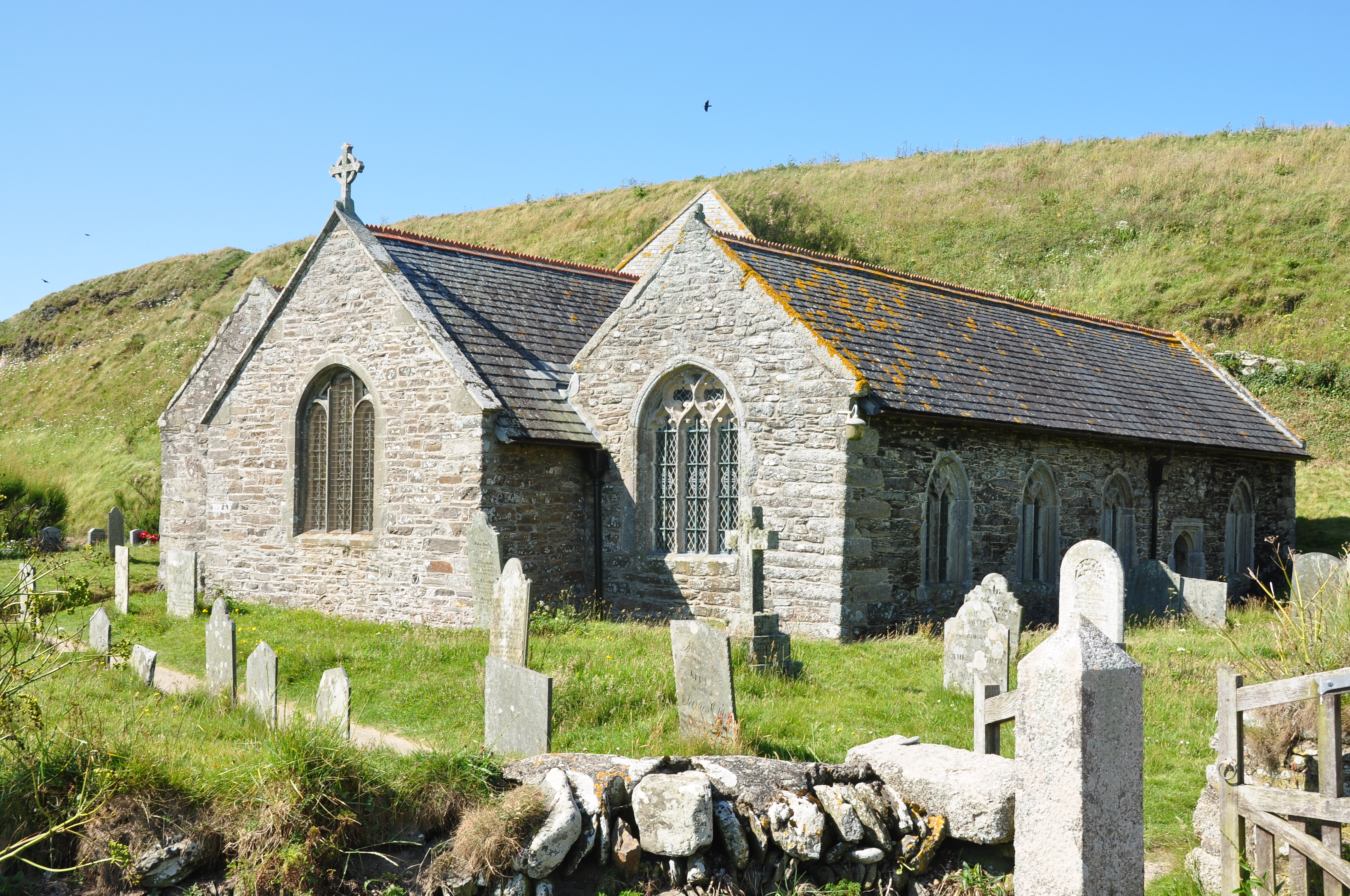 St Winwallow's Church, Gunwalloe